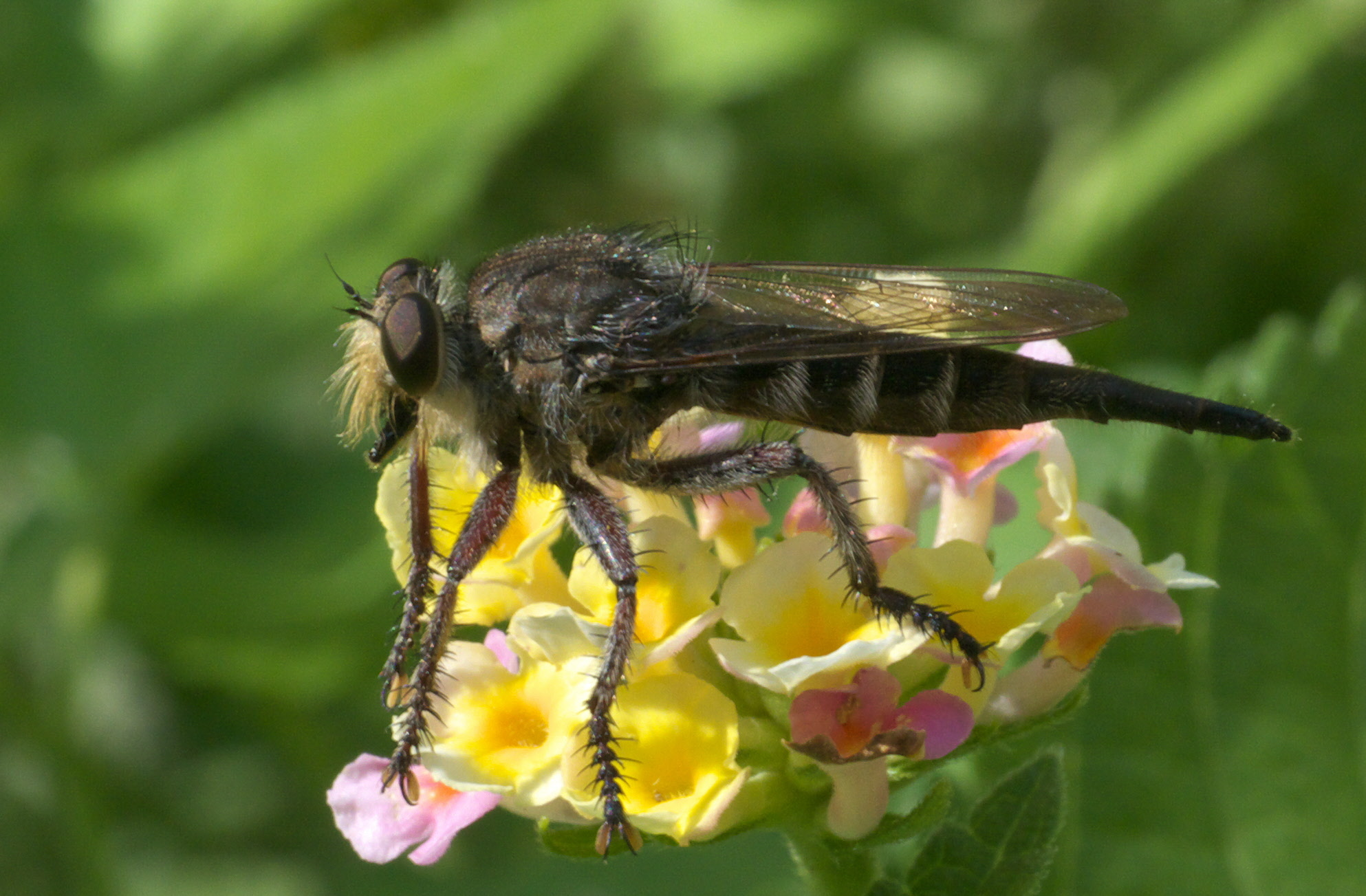 Promachus bastardii, Genus: Giant Robber Flies, ID Confidence: 90